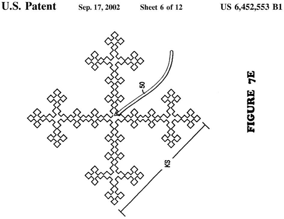 An example fractal antenna based on a Vicsek fractal from U.S. Patent 6,452,553.